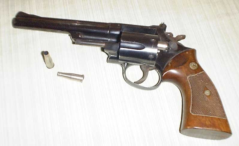 Smith & Wesson Model 53